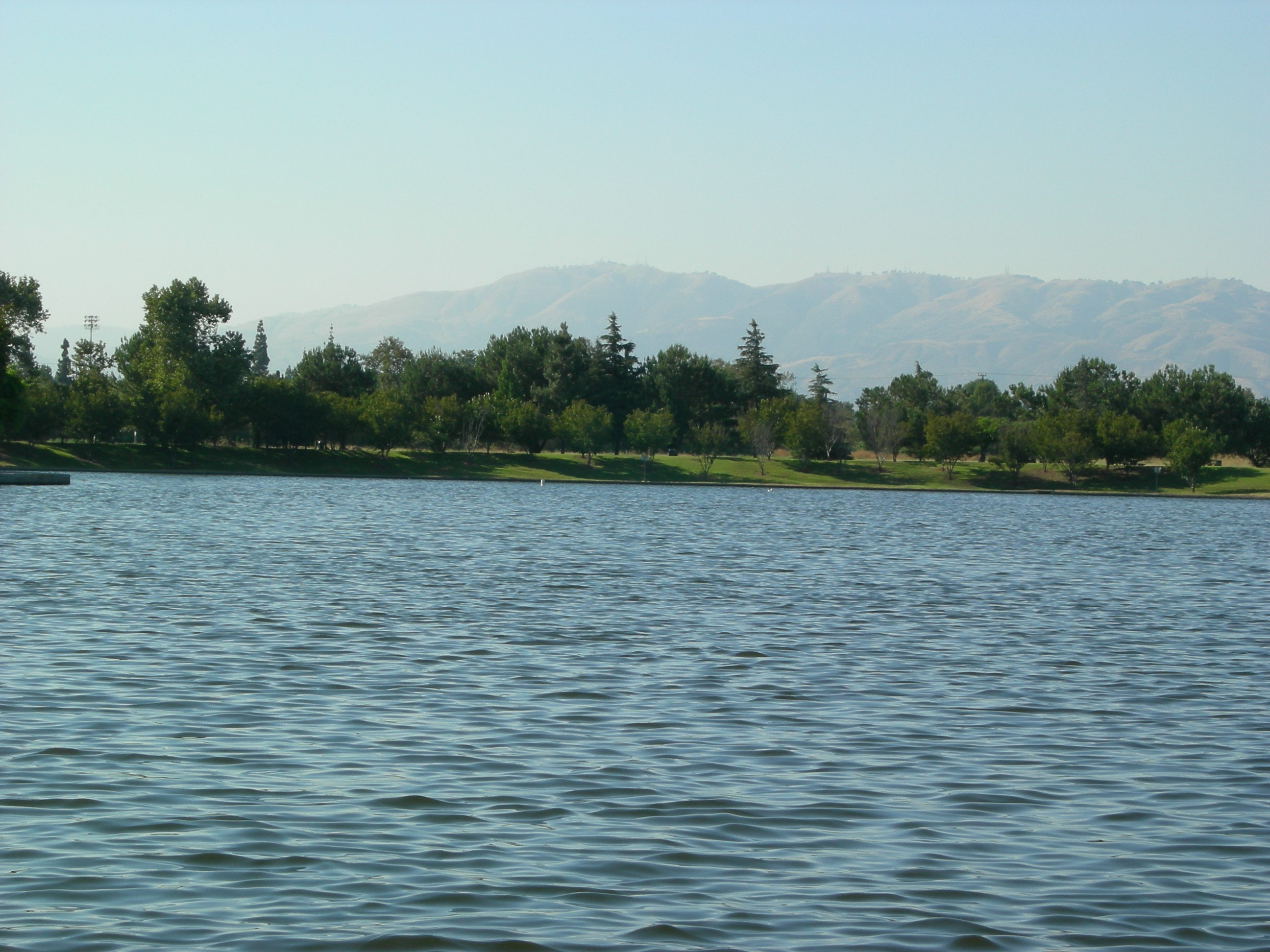 Lake Balboa and park, on the Los Angeles River in the San Fernando Valley, near Encino, Los Angeles, California. This view is from a boat on the lake facing north.